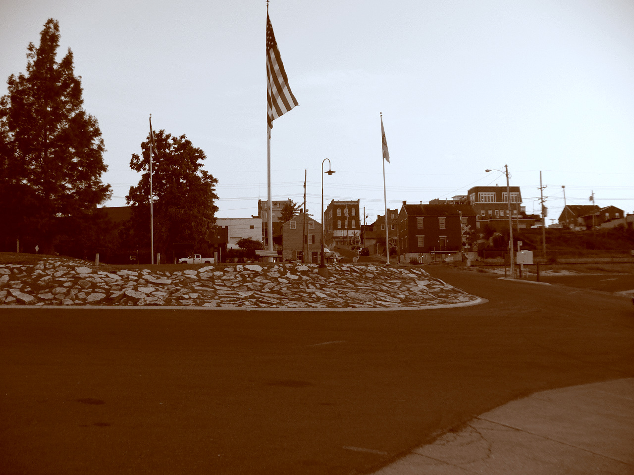 Downtown Washington at dusk in sepia - As seen from the park and train station at the Missouri River dock.